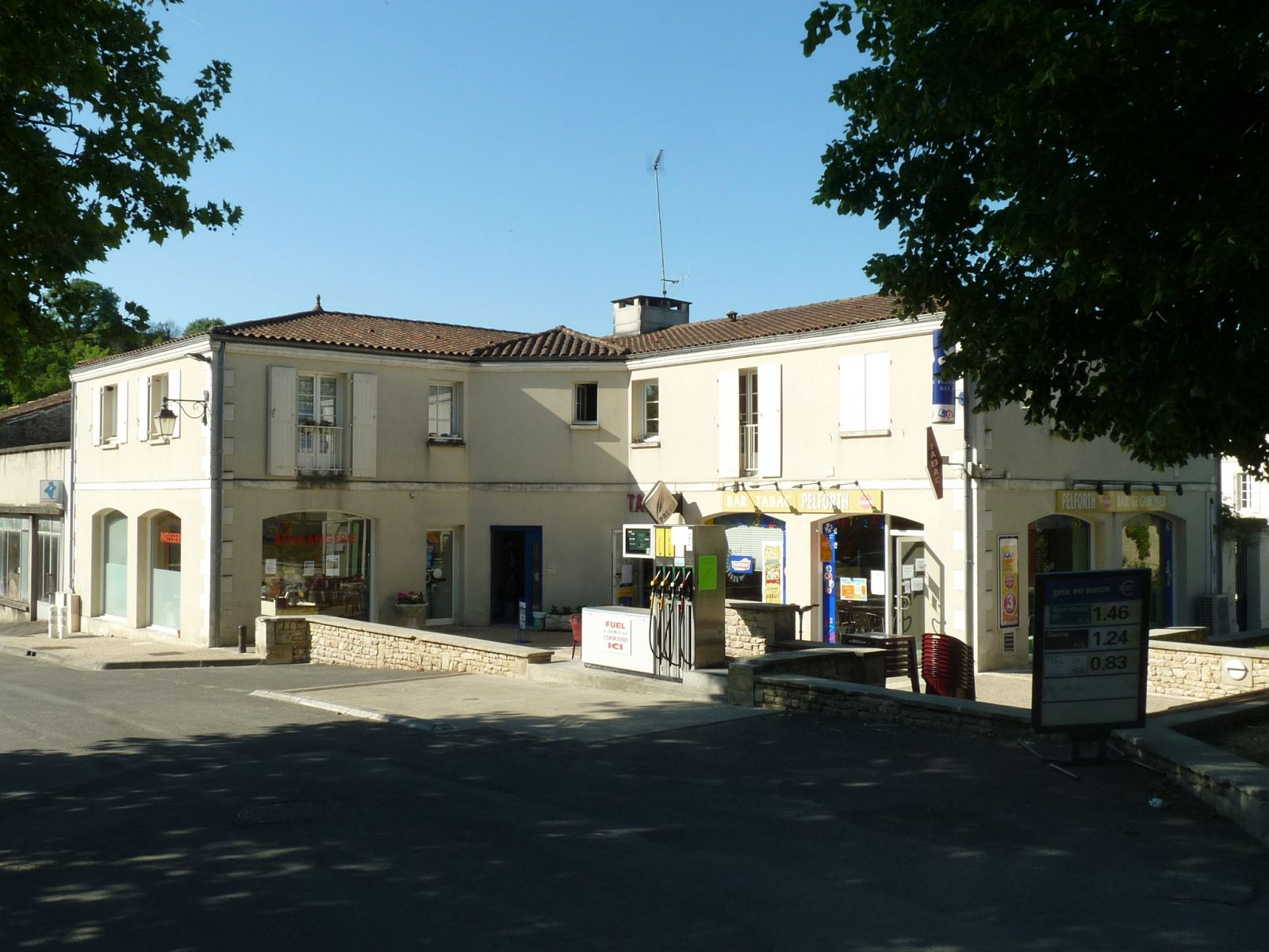 shops